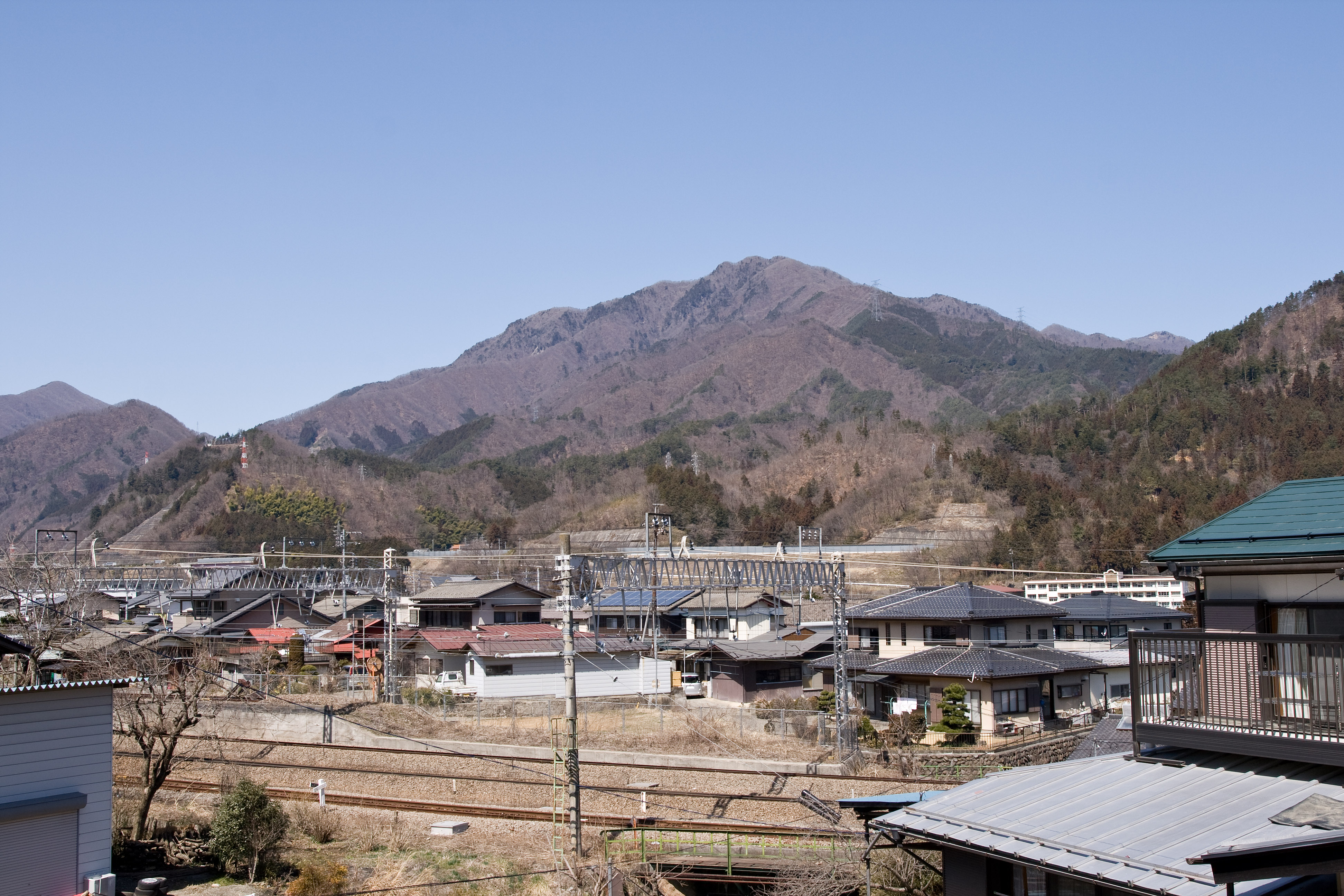 Mount Takigo seen from southeast.